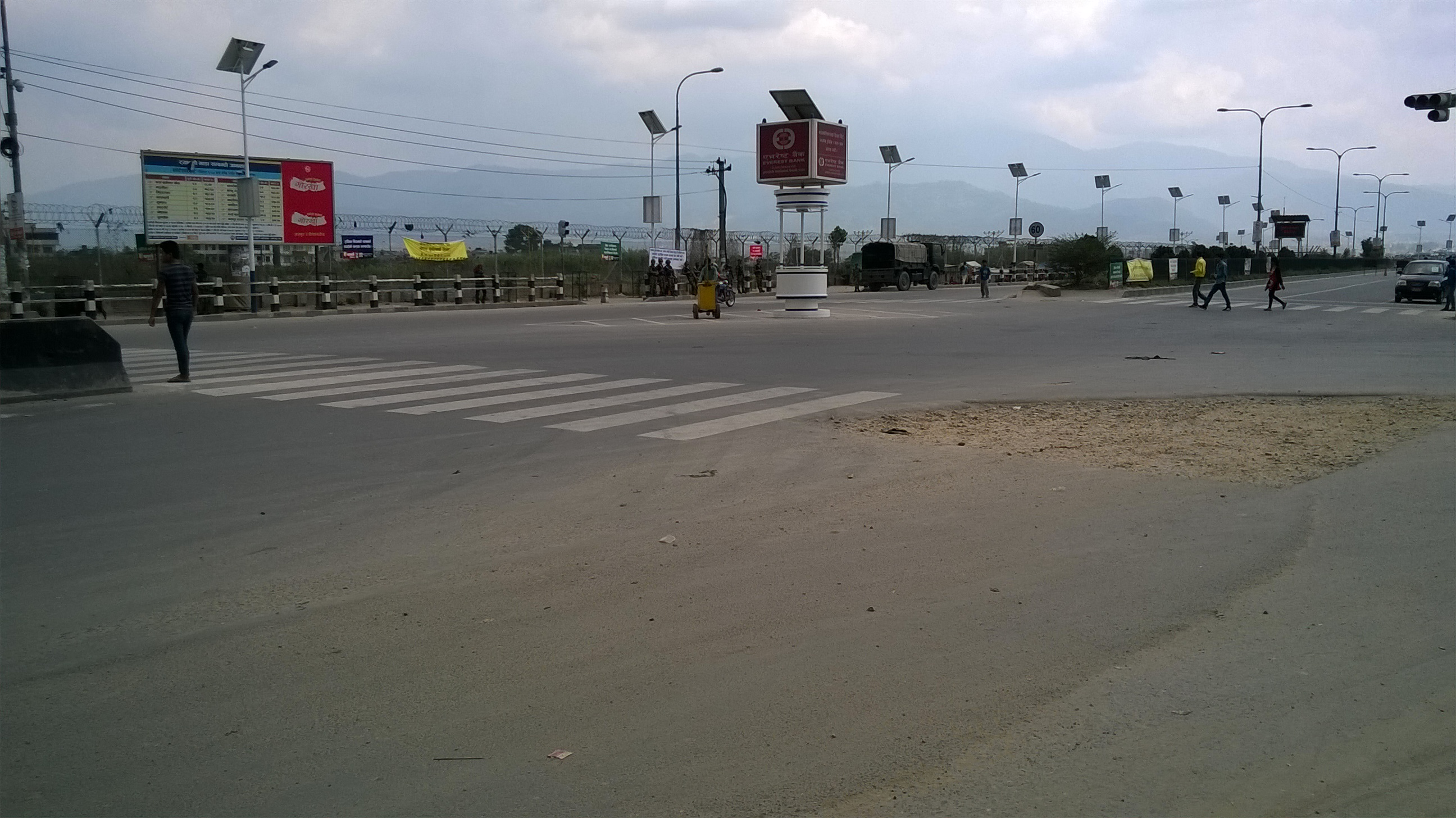 Araniko Highway, Koteshwor